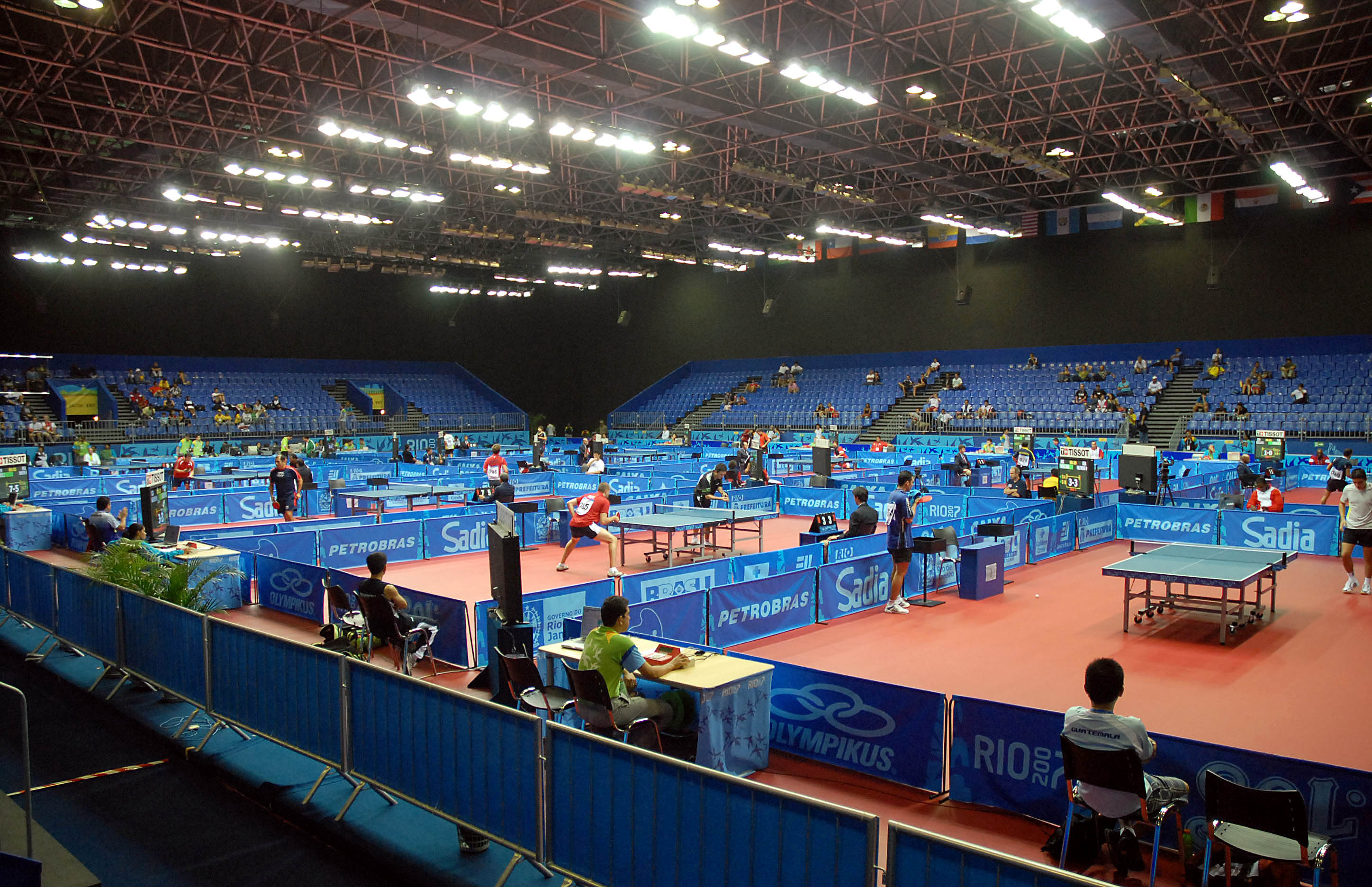 Table Tennis complex at Riocentro, Rio de Janeiro for the 2007 Pan American Games